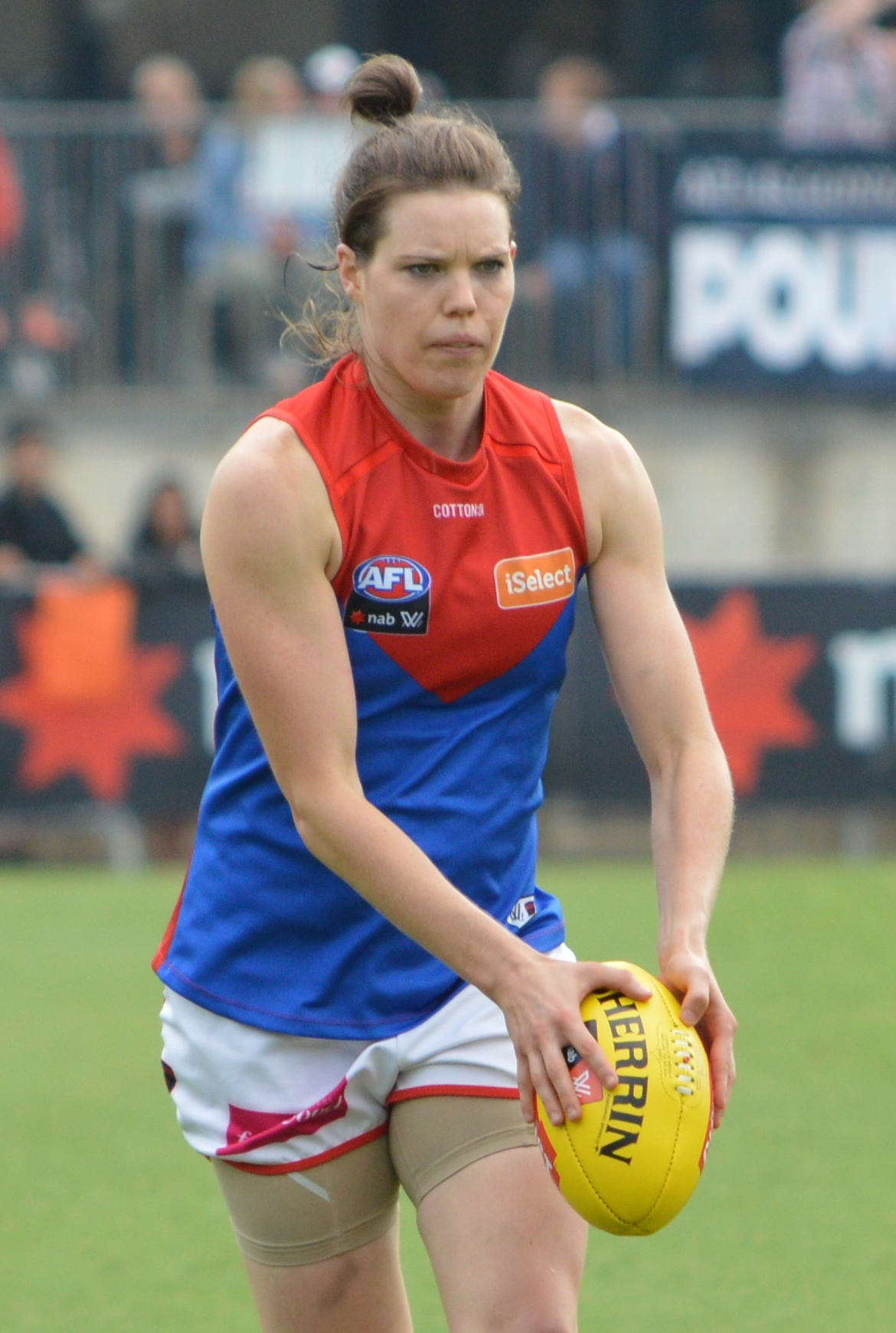 Elise O'Dea during the round 6, 2018 AFL Women's match between Carlton and Melbourne.